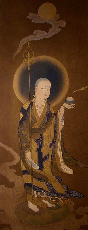 Ksitigarbha, the earth store bodhisattva, with his staff he uses to pound open the gates of Hell, and his cintamani pearl for illuminating all the various realms of hell, to benefit sentient beings trapped there.